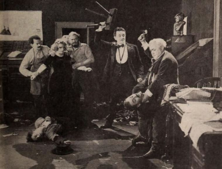 Still from the American crime drama film Miss 139 (1921) with Diana Allen and Marc McDermott, the other actors are not identified, on page 67 of the October 23, 1920 Exhibitors Herald.